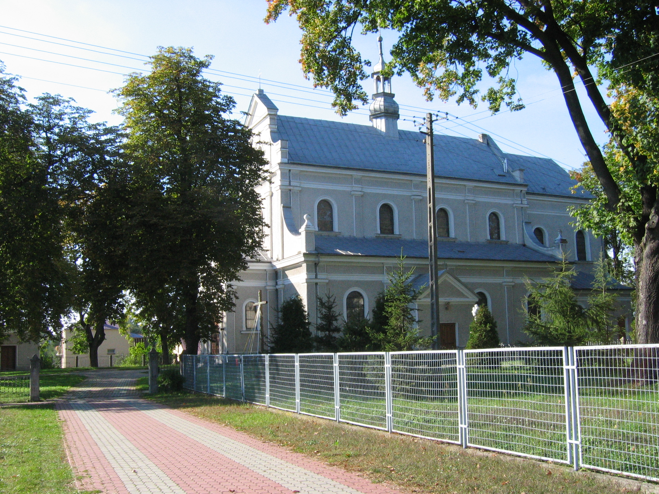 Wadowice Dolne, church of St. Francis of Assisi